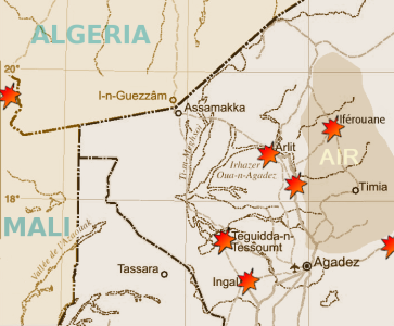 Map of the summer 2007 fighting between the tuareg insugenciey and government forces in the northwest of Niger